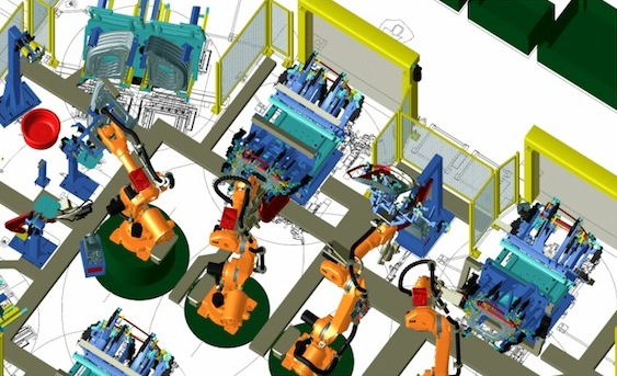 Robotic simulation using Robcad software for virtual manufacturing